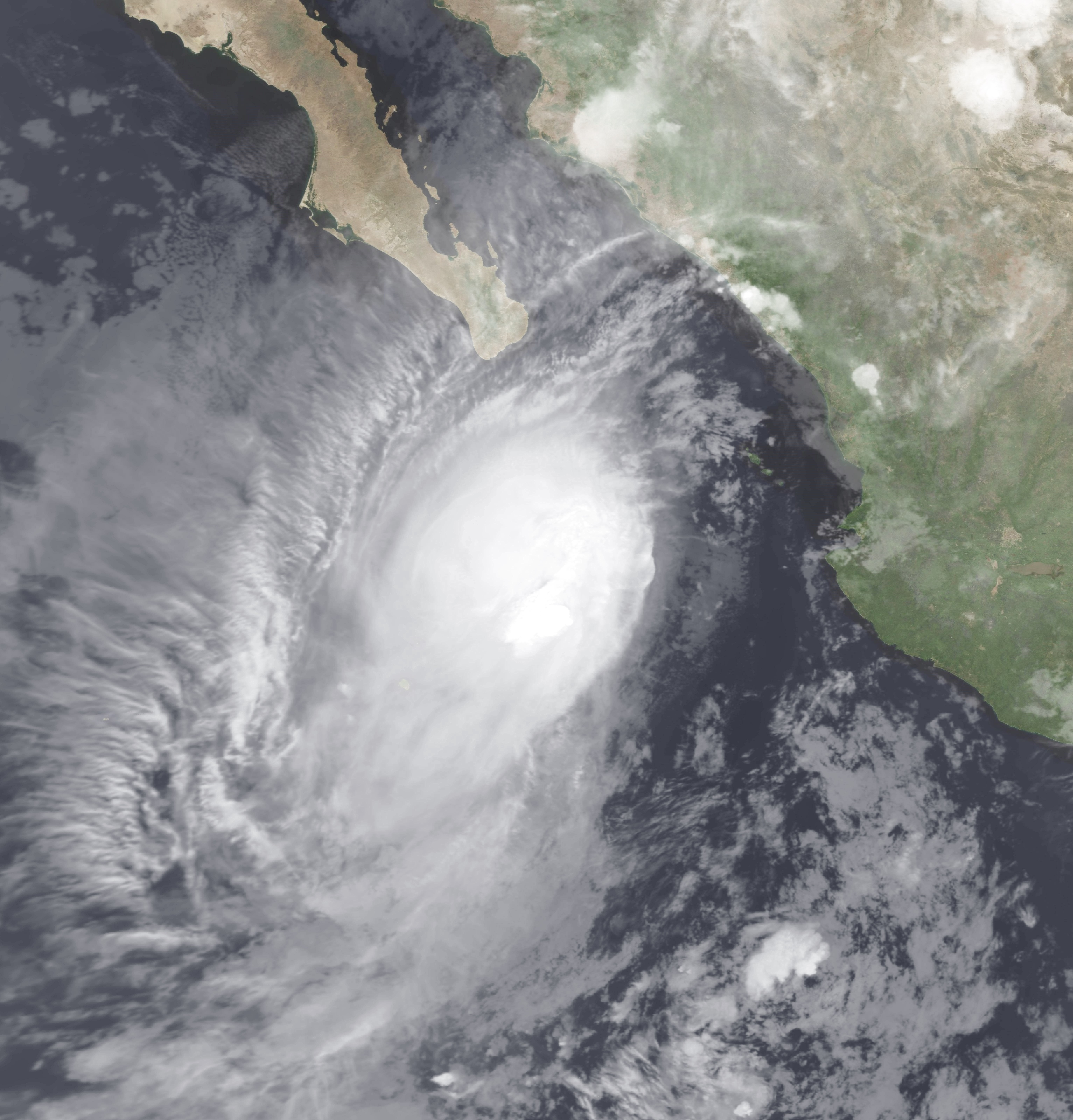 Tropical Storm Patricia shortly after peak intensity on October 13, 2009.